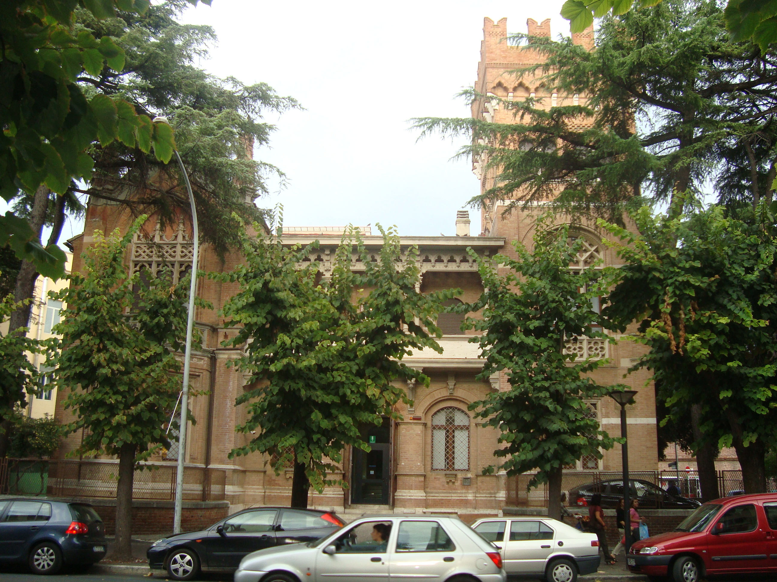 Villino Pastorelli in Grosseto, frontal face